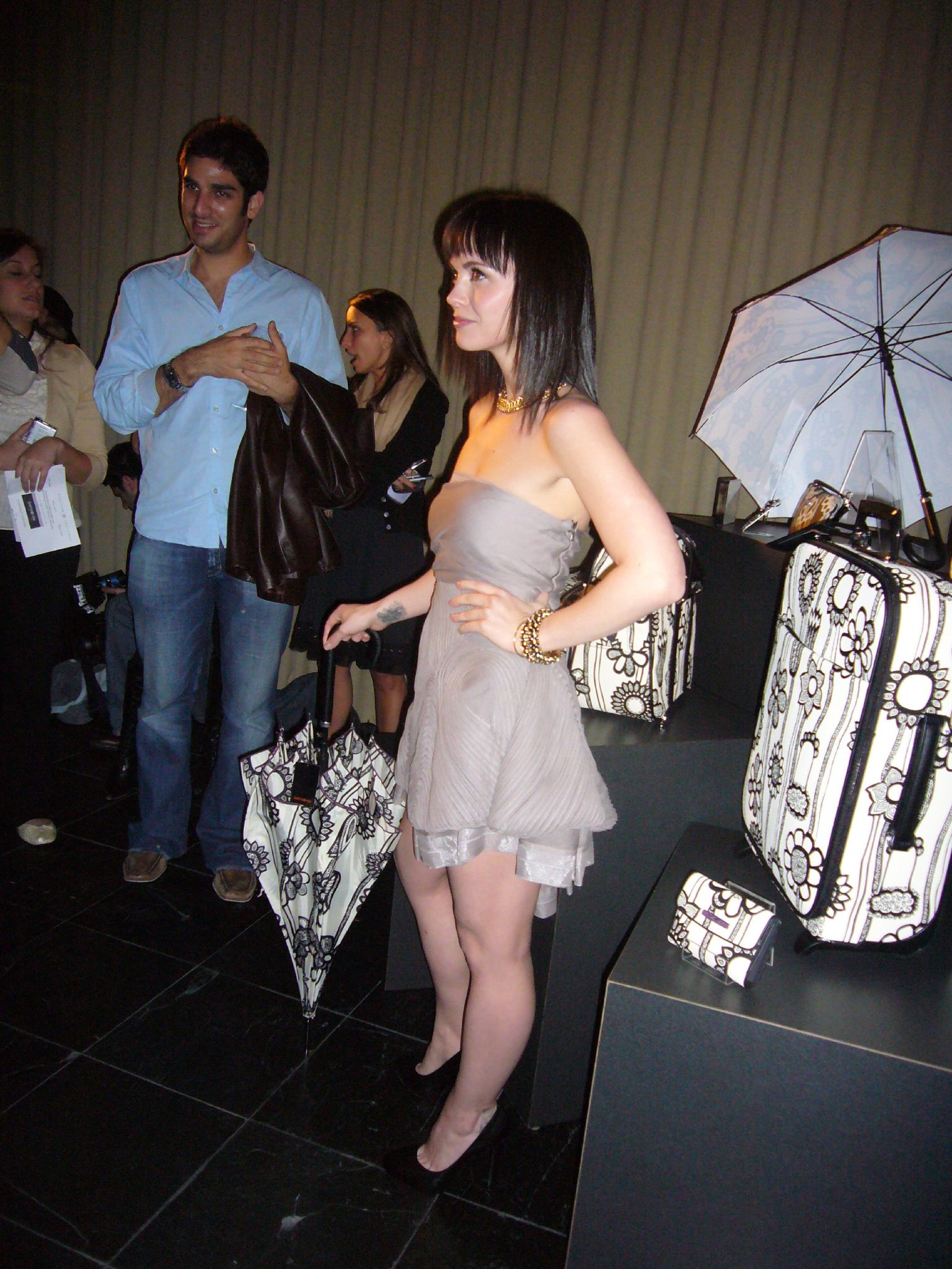 Christina Ricci at Gramercy Park Hotel, during the presentation of the new Samsonite Line on March 29, 2007.